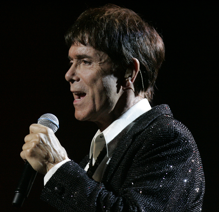 Cliff Richard performs at State Theatre; Sydney, Australia. This is a cropped version of File:Cliff Richard (8454760629).jpg on Commons.